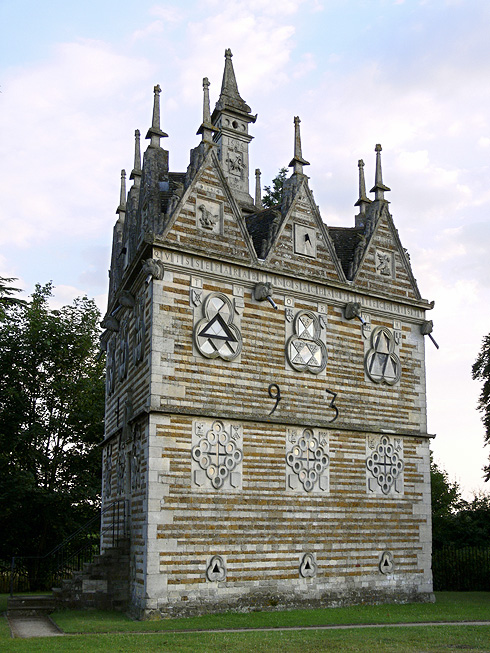 The Triangular Lodge designed by Sir Thomas Tresham, built between 1593–1597 AD, at Rushton, Northamptonshire, UK.